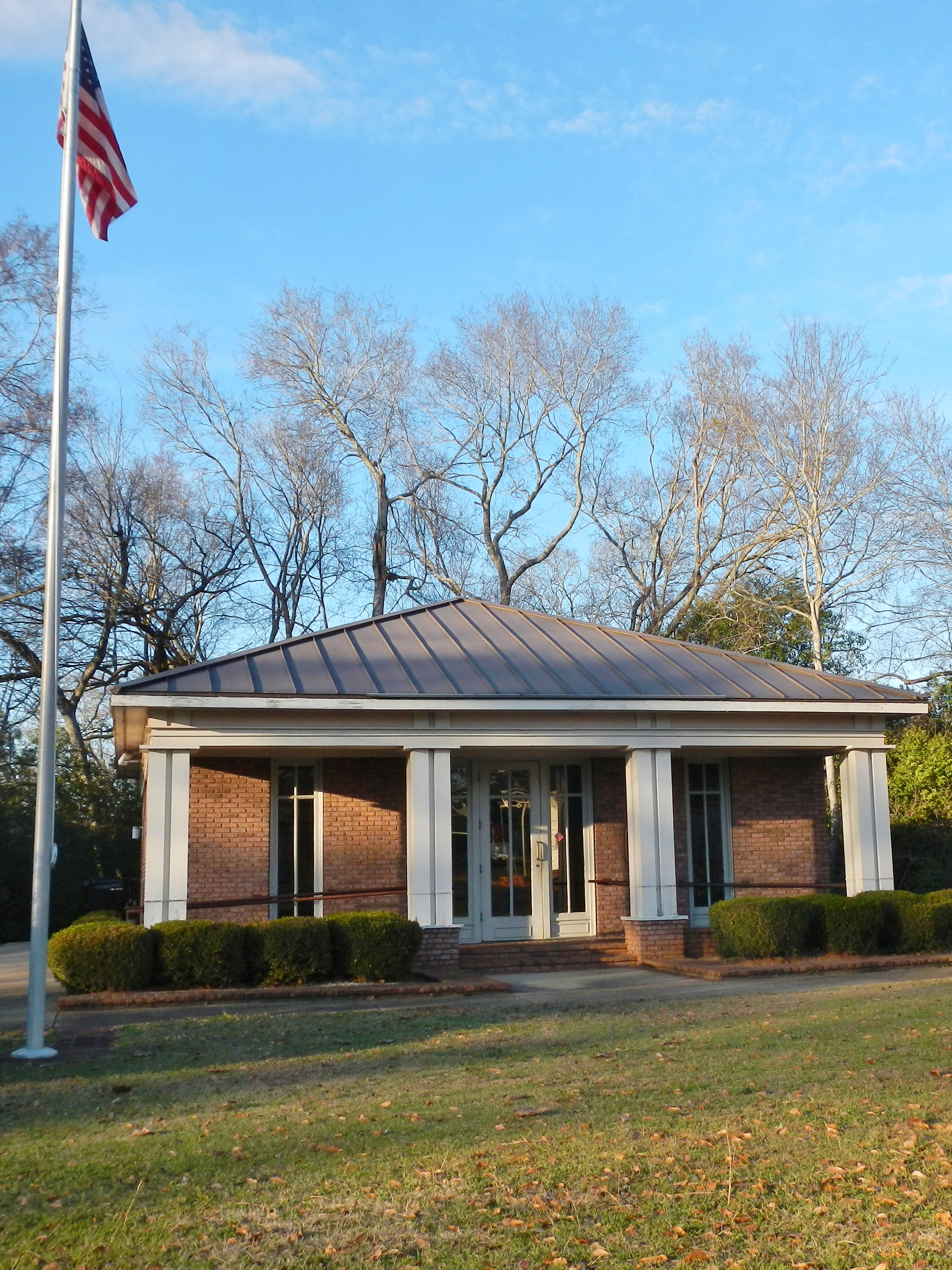 This is a photograph of the post office in Lowndesboro, AL.